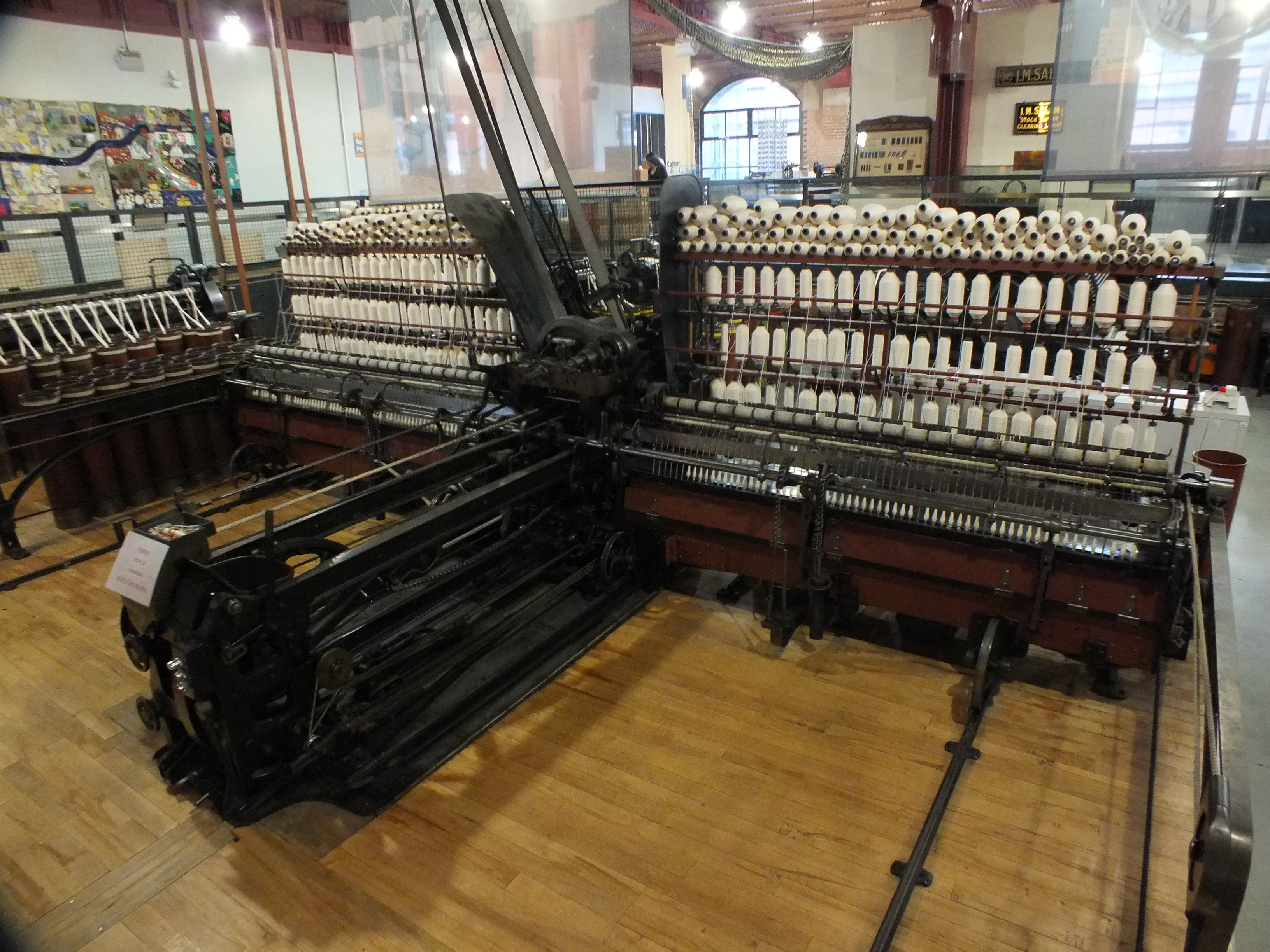 The Museum of Science and Industry (Manchester) contains a collection of textile machines that demonstrate the whole process used in a Cotton mill, and a few key eighteenth century machines. A 1927 Platt brothers Spinning mule- vastly shortened from 1200+ spindles to around 200.